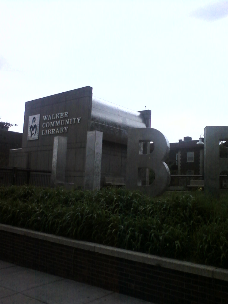 The exterior of the Walker Community Library (a branch of the Hennepin County Library) in Uptown, Minneapolis.